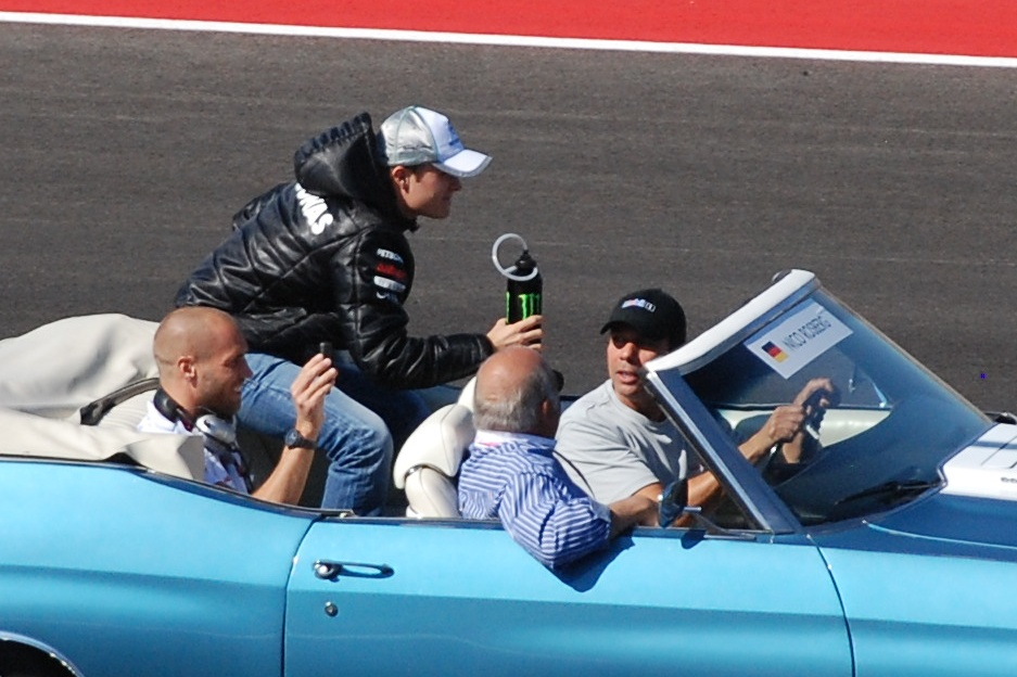 Nico Rosberg, United States Grand Prix, Austin 2012